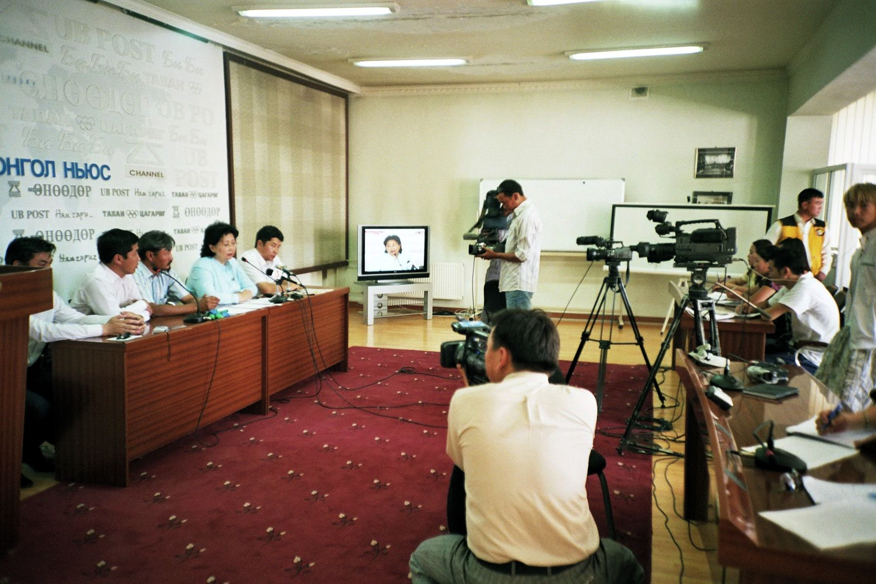 Mongolian media interviewing the Mongolian Green party in August 2008